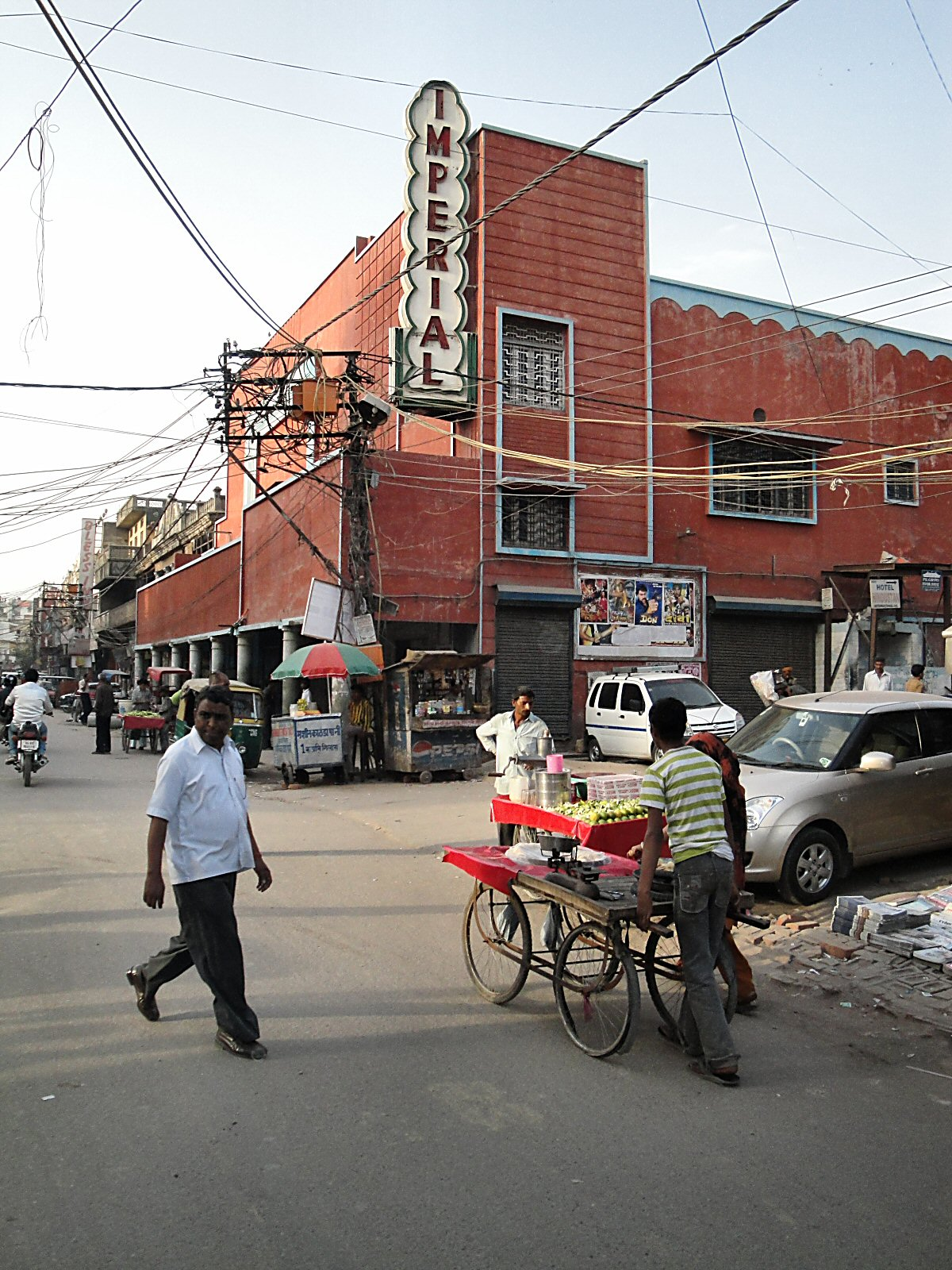 Building on corner in Paharganj, New Delhi.